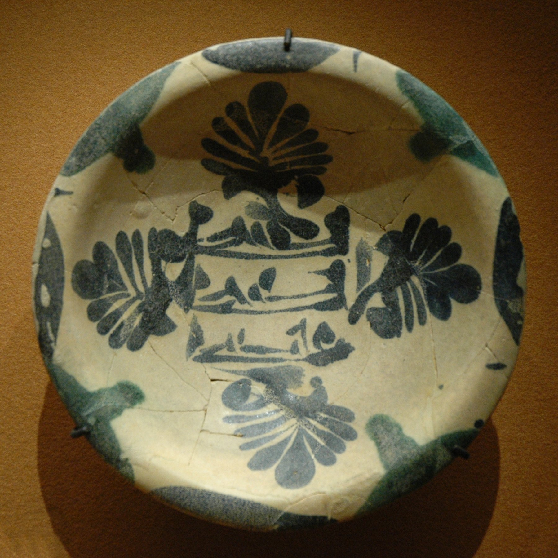 Cup with finger-shaped palm leaves decoration, bearing a three-line inscription.